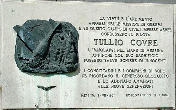 Memorial plate located at the airport of Verona-Boscomantico, Italy, to honor the sacrifice of pilot Tullio Covre, who drowned after an emergency ditch in Sicily, 1961.